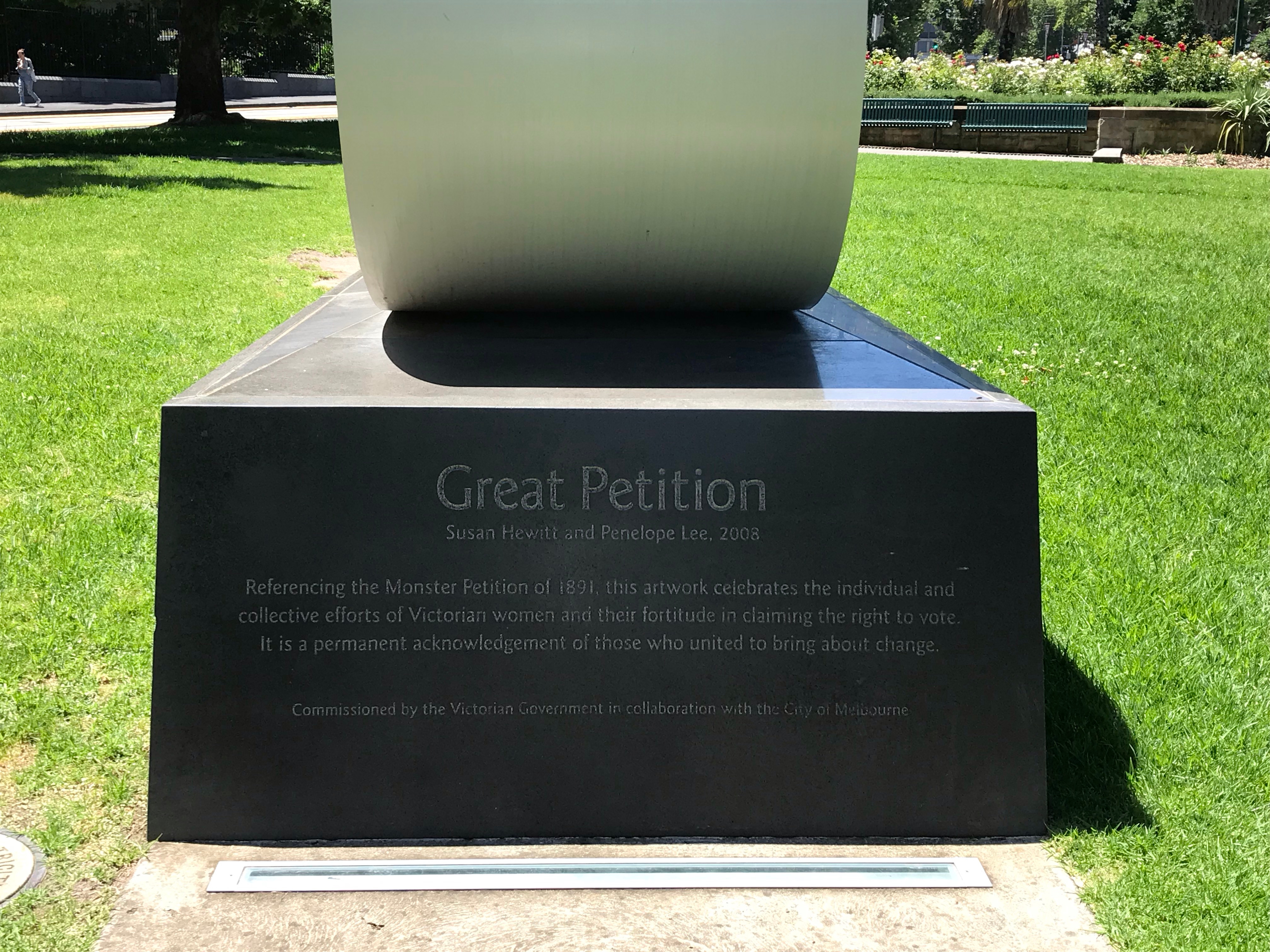 Great Petition, a 2008 sculpture in Burston Reserve in East Melbourne, Victoria